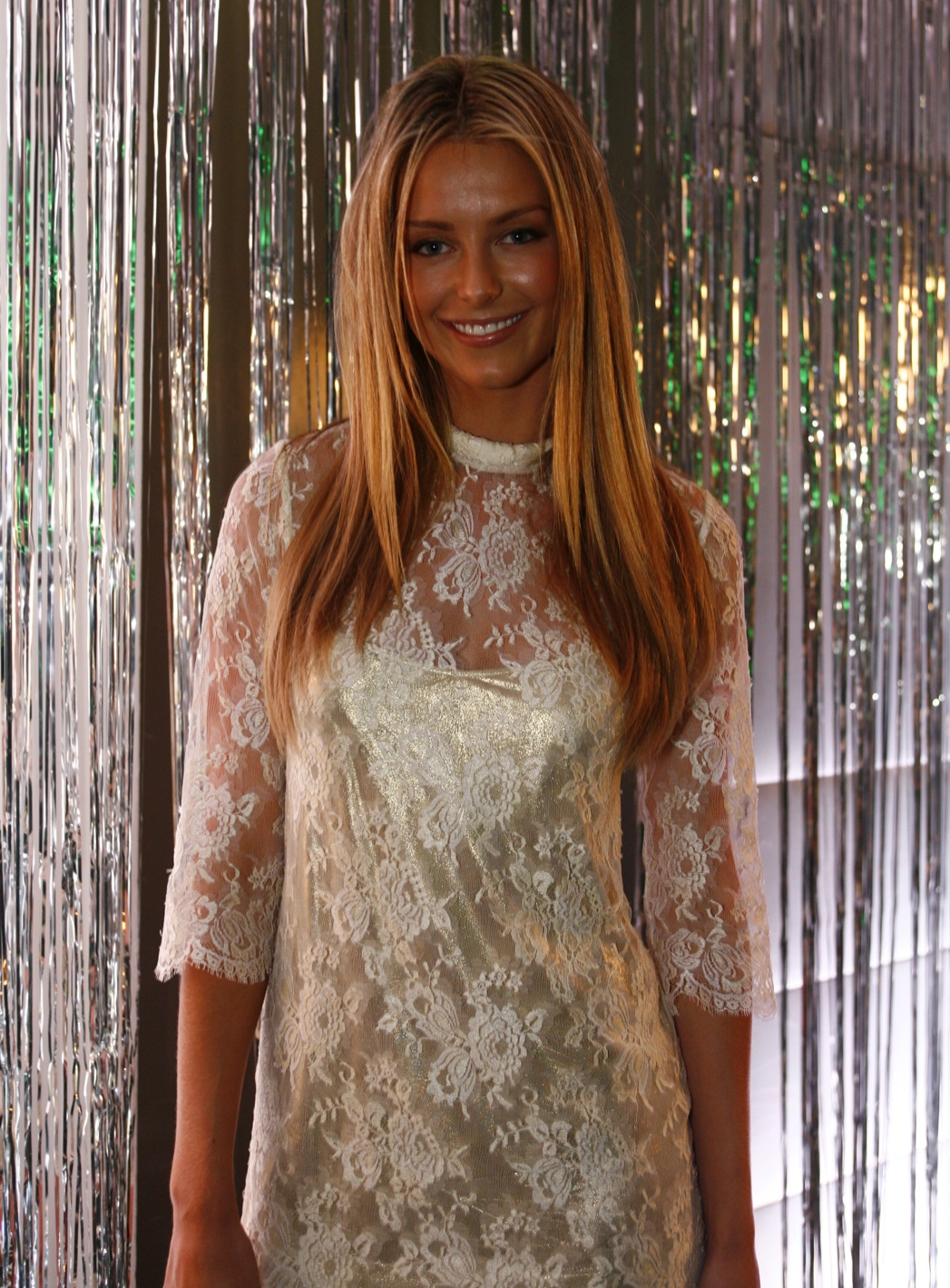 Australian Miss Universe 2004 Jennifer Hawkins